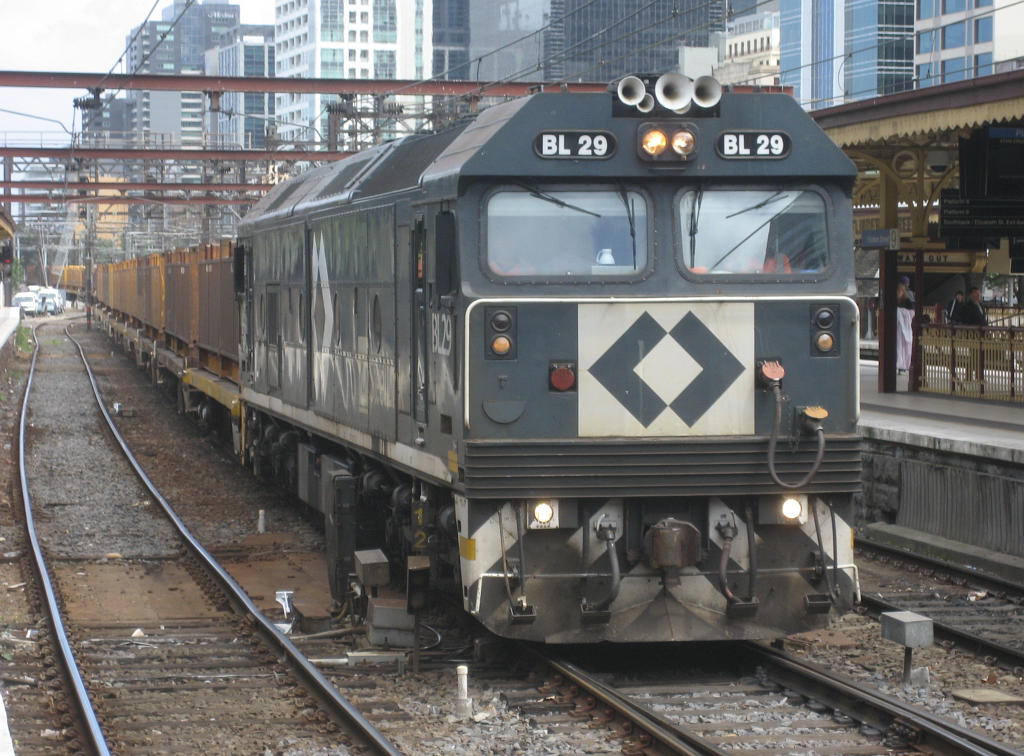 The Long Island steel train runs though Flinders Street Station, Melbourne